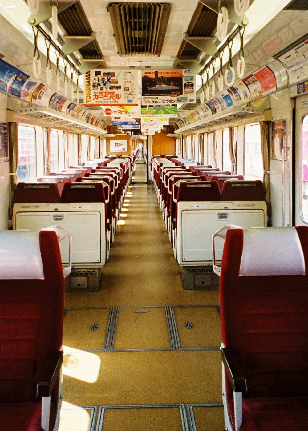 Interior of a Keikyu 2000 series in original 2-door configuration with transverse seating